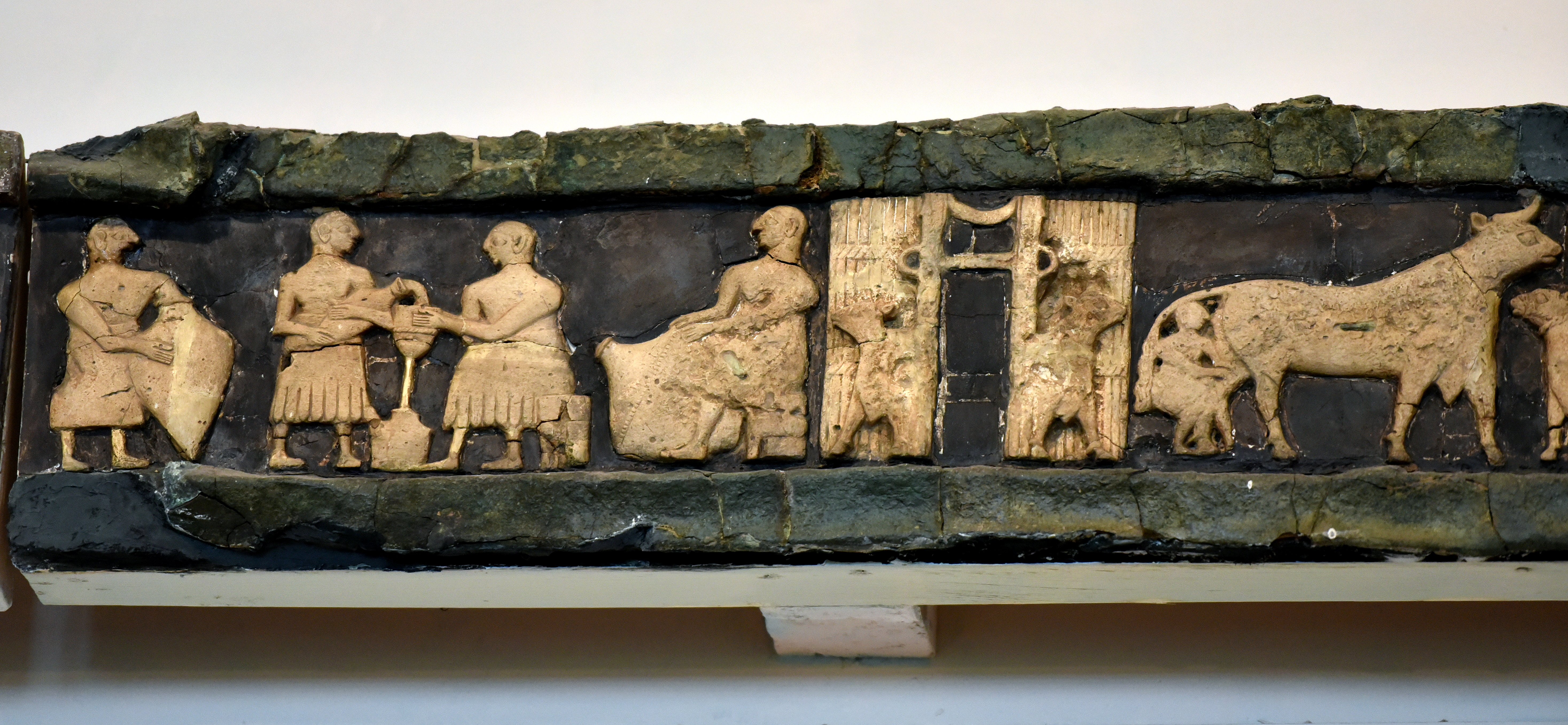 Inlay frieze with limestone figures. A Sumerian scene showing milking cows and making dairy products. From the facade of the Temple of Ninhursag at Tell al-'Ubaid, Iraq. Early Dynastic period, 2800-2600 BCE. On display at the Sumerian Gallery of the Iraq Museum in Baghdad, Iraq. TO 303 (excavation numbers). Excavated in 1923.